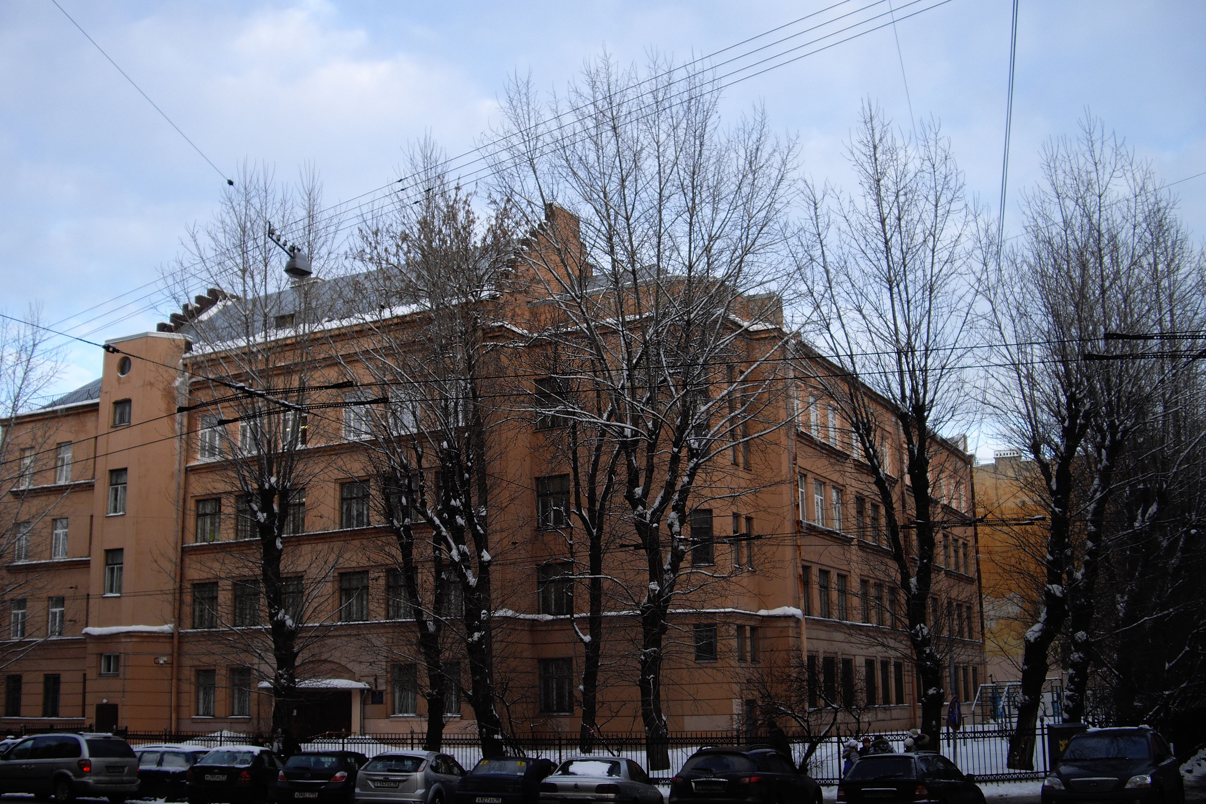 Kronverkskaya Street, corner of Bolshaya Monetnaya Street (Saint Petersburg, Russia). School number 84.